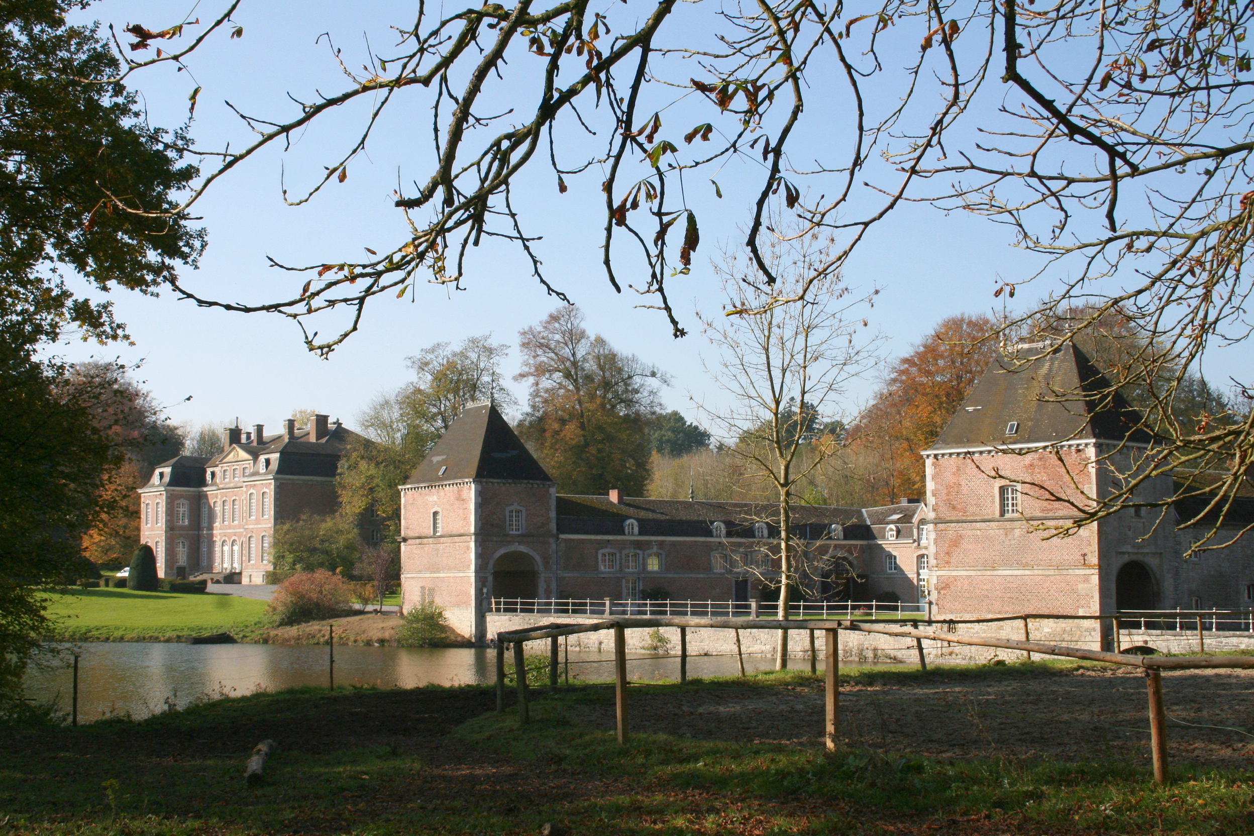 Barvaux-en-Condroz (Belgium), the castle (XVIIIth century).